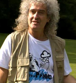 Brian May of Queen filming for the BBC's 'The One Show' for an anti badger culling campaign. Photo taken on set by myself. Feel free to distribute.